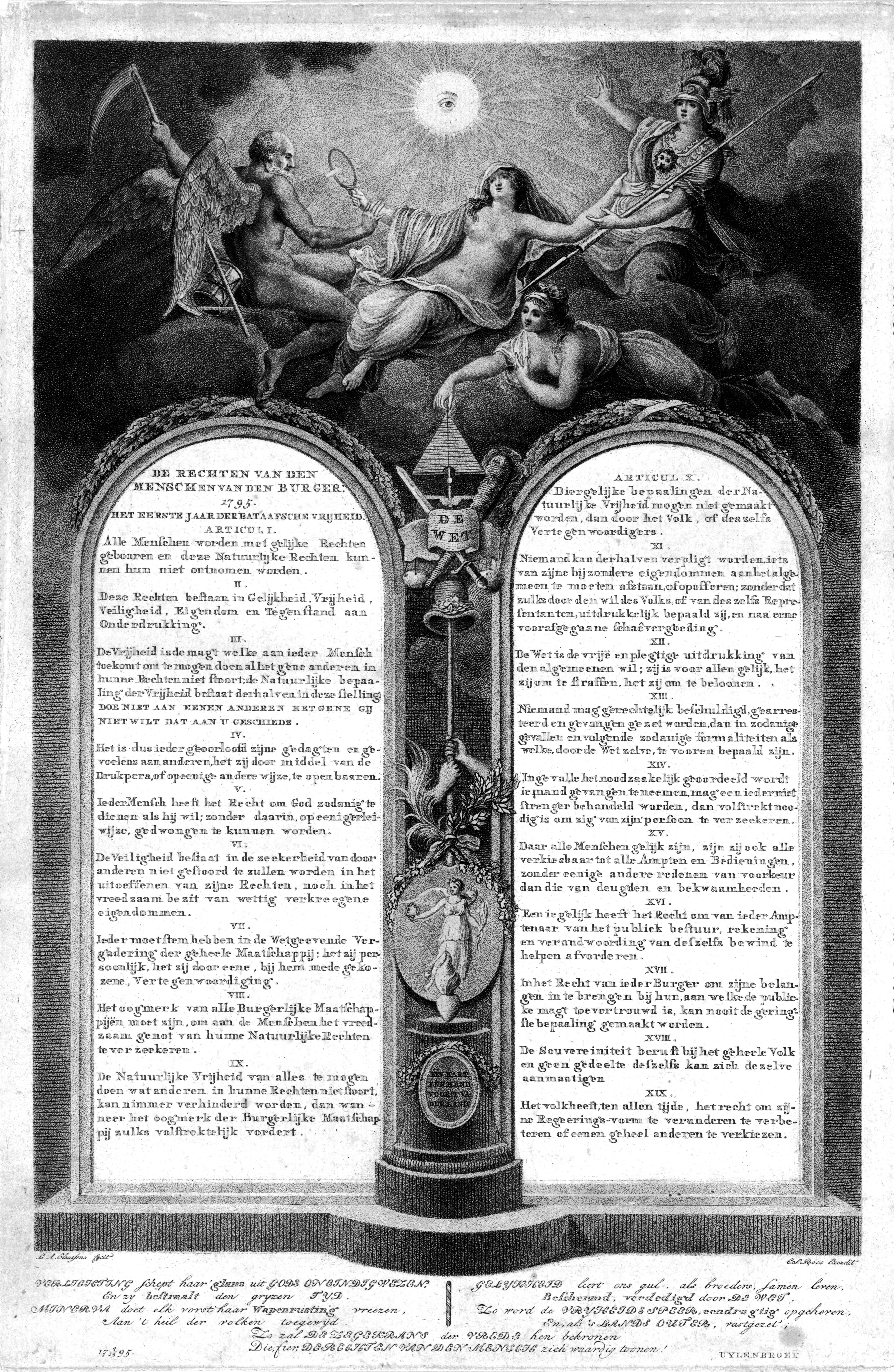 The rights of man and of the citizen in 19 articles, text in two columns, presented as the ten commandments on the "Tables of the Law." Top center the All Seeing Eye. Below the Enlightenment (middle) that irridiates the gray Time (left) with light and Minerva (right). To the bottom a ten-line verse. This Law proclaimed on 31 January 1795 in The Hague by the Provisional representatives.